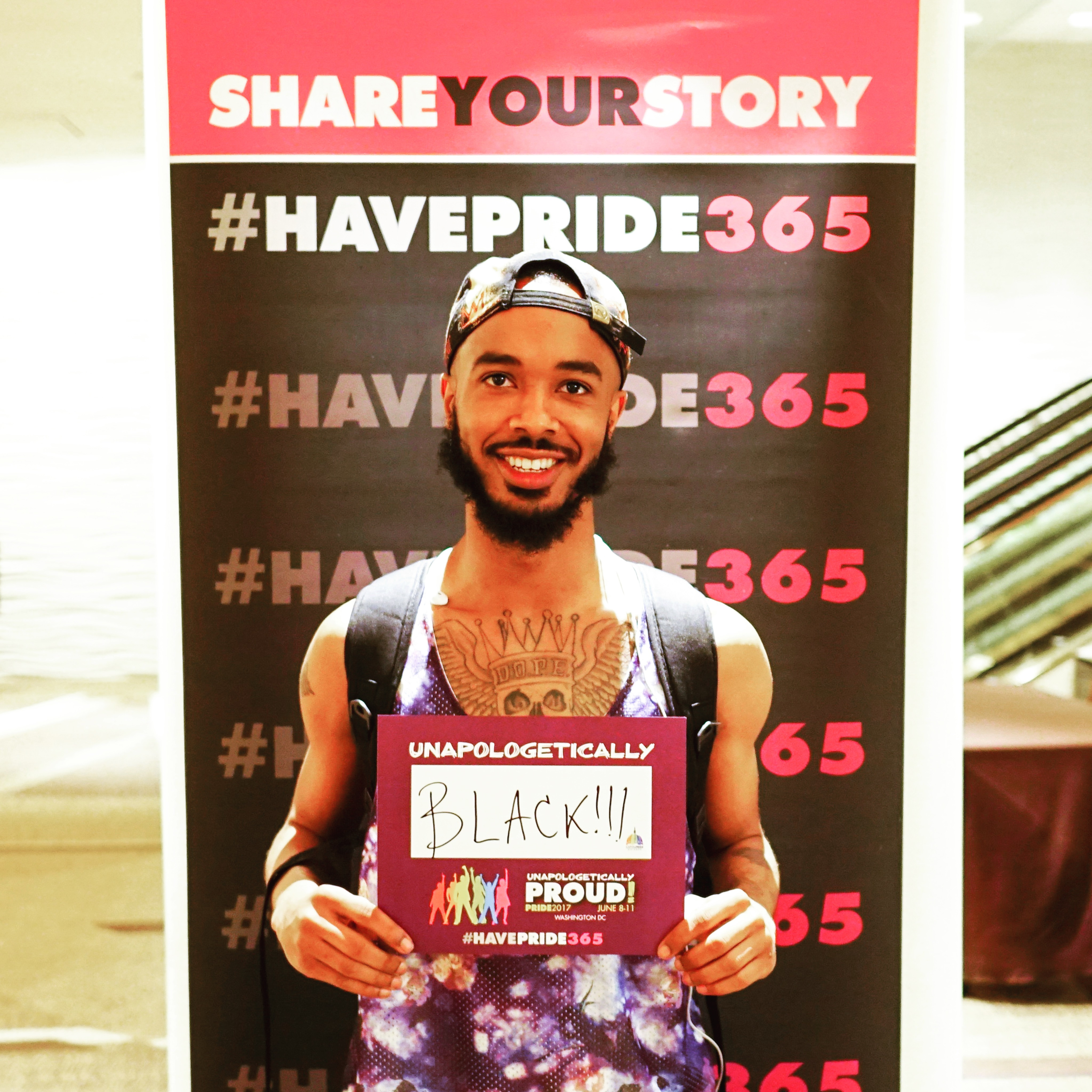 2017.06.08 Select Images of LGBTQ Pride History 2017.05.27 DC Black Pride, Washington, DC USA